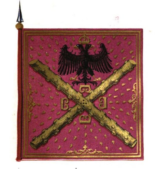 Flag given in 1510 to Mercurio Bua by Emperor Maximillian I. Original in a manuscript written by Ioannes (Tzanes) Coroneos, contemporary of Bua. It was studied and copied at the library of the King of Italy between 1856-1861 by various Greek scholars and published by K. N. Sathas in 1867. It shows the Byzantine Double Eagle, the Cross of St. Andrew and the four letter B-like symbols of the Paleologi Coat of Arms.